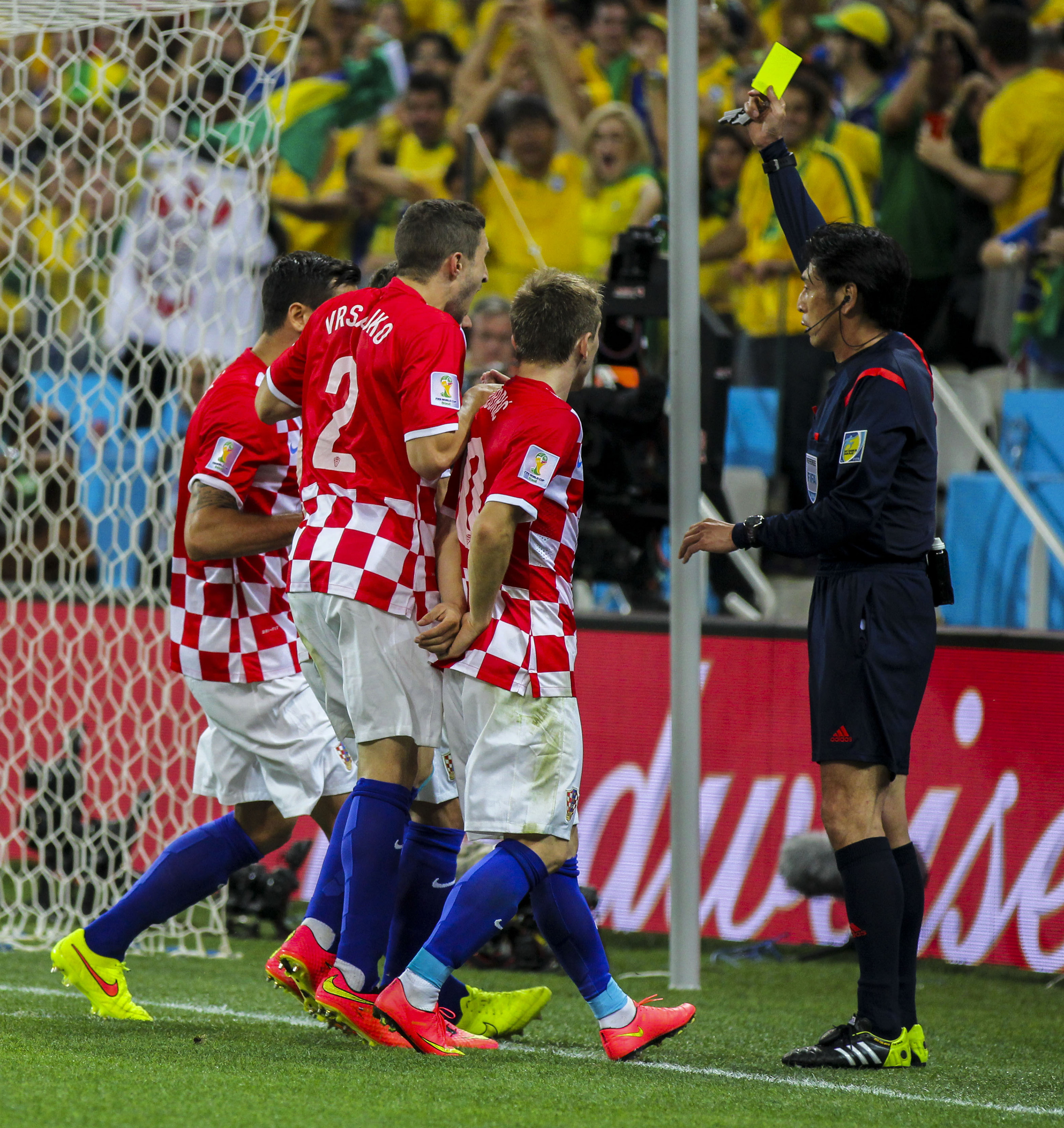 Brazil and Croatia match at the FIFA World Cup 2014-06-12